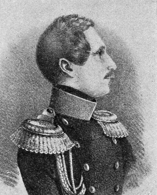 Count Pyotr Andreevich Kleinmichel, also known by German name Peter von Kleinmichel (30 November 1789 – 3 February 1869), was Minister of Transport of Imperial Russia (1842-1855).